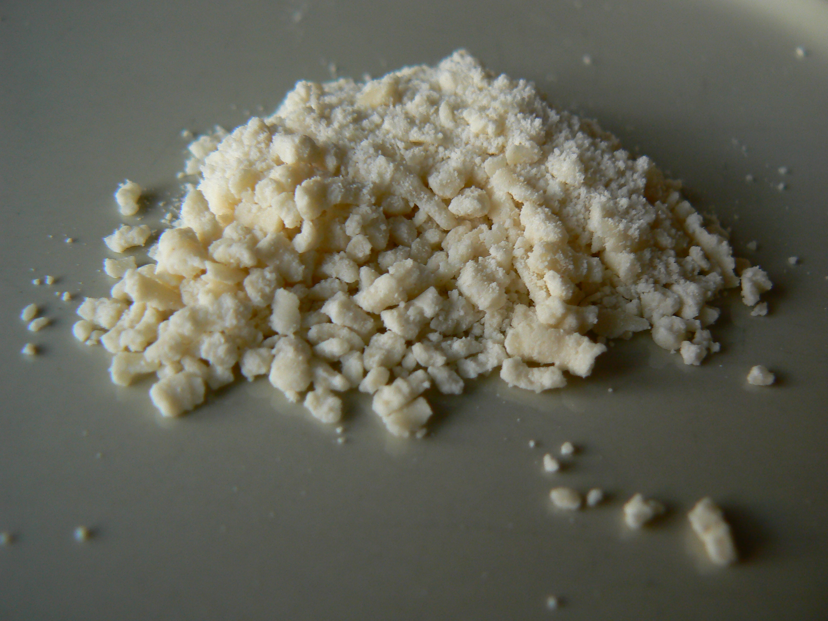 Instant granulated roux